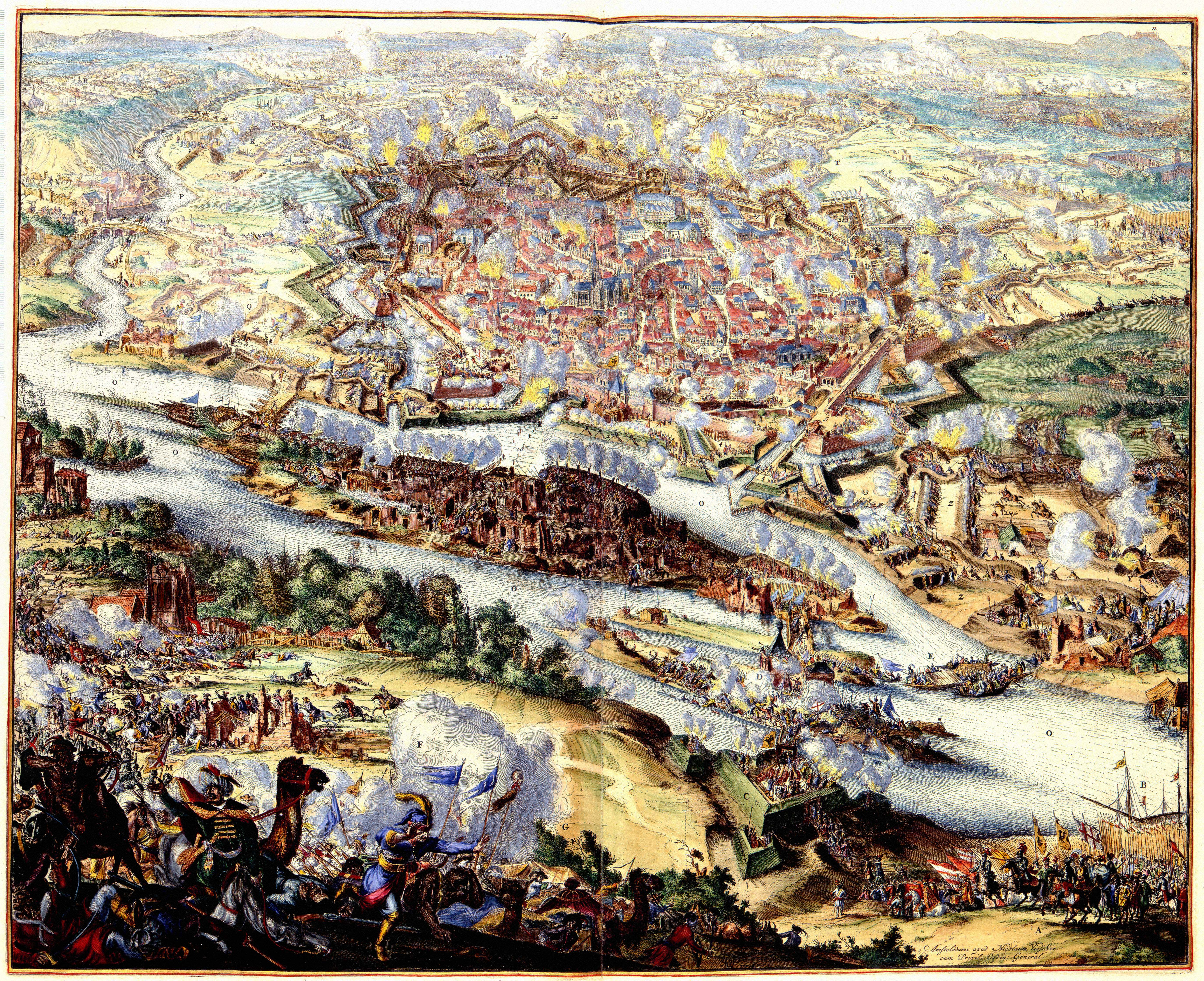 In 1683 the town of Vienna was besieged for two months by a great Turkish army. The siege was followed daily in the Dutch papers, the papers using correspondants who stayed near the battle fields. Newspaper articles were clarified by separate maps and news prints to provide readers with actual information about the battle sites. For the publisher Nicolaes Visscher II (1649-1702), engraver Romeyn de Hooghe (1645-1708) prepared a series of prints in which the complete history of the siege is being depicted. De Hooghe did not attend the siege himself but used drawings made by Jacob Peeters from Antwerp.